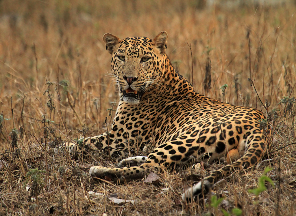 Wildlife